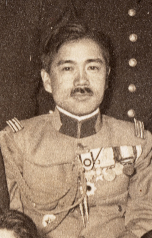 Fujita as Military attaché to a legation of Imperial Japan in Chile